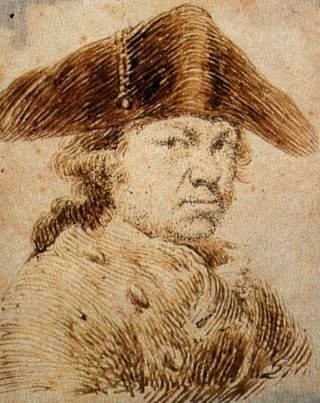 Self-portrait